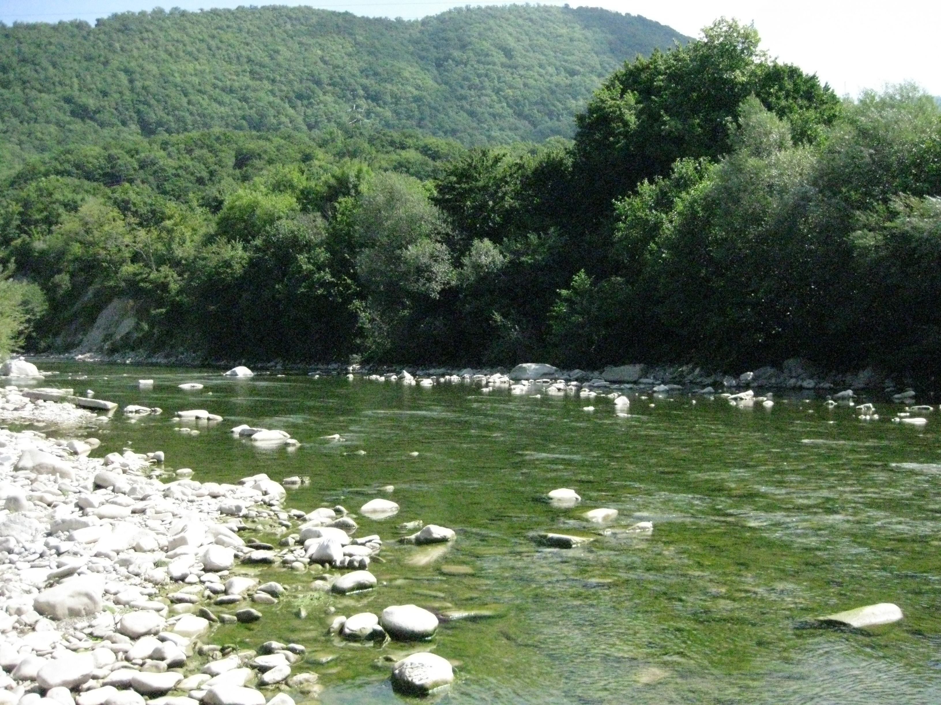 vid reki ase